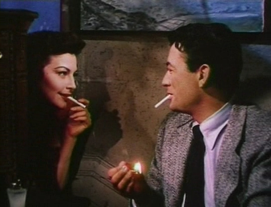 Screenshot of Ava Gardner and Gregory Peck from the film The Snows of Kilimanjaro